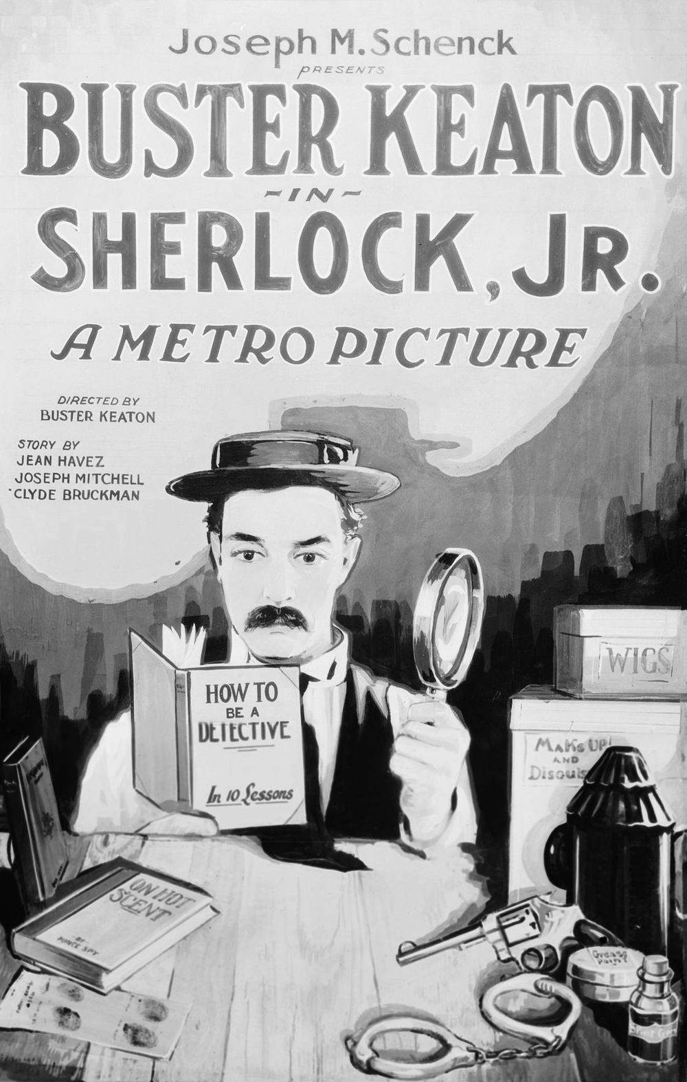 Poster for the 1924 film Sherlock Jr., featuring Buster Keaton.